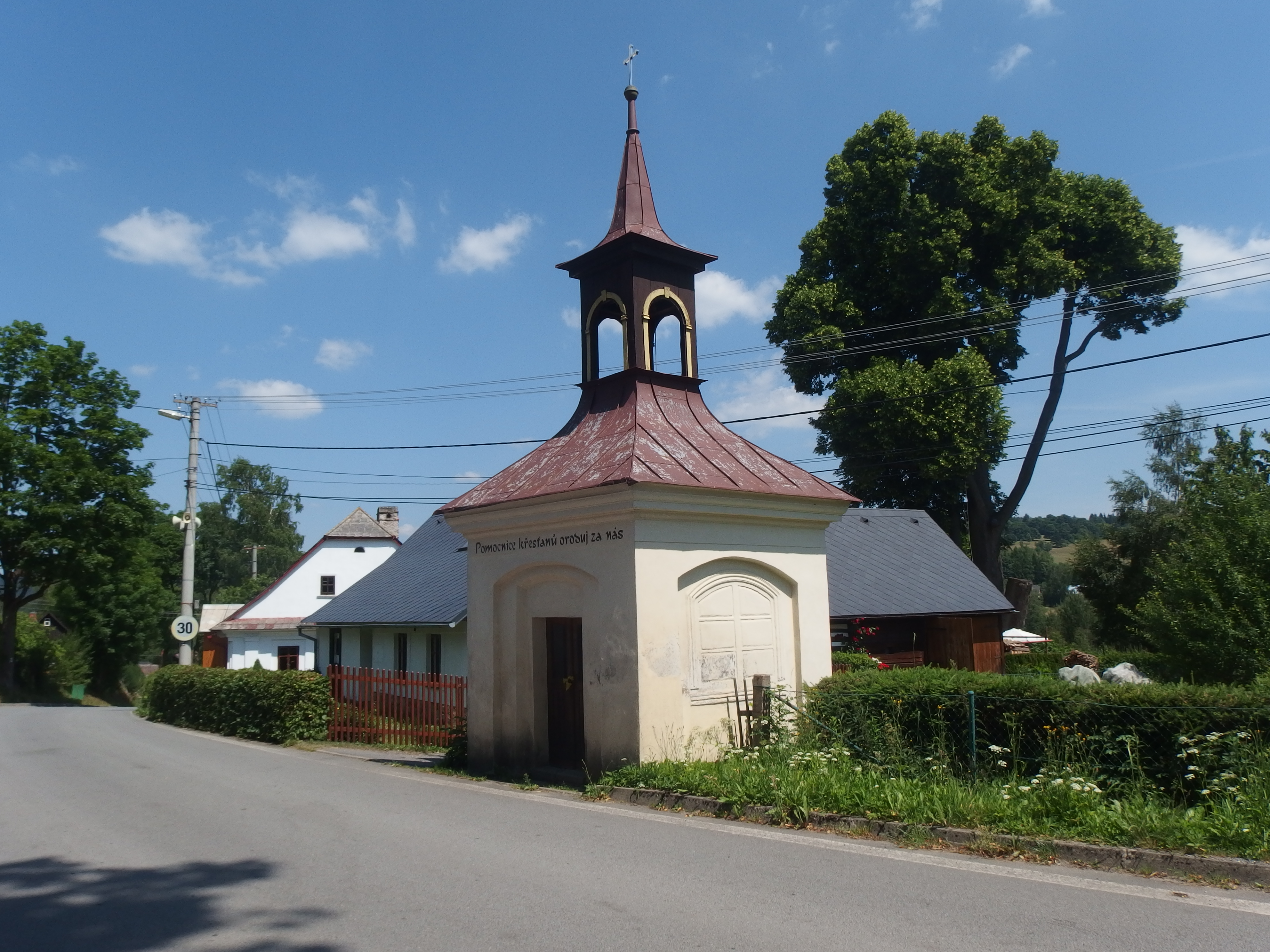 Křižánky, Žďár nad Sázavou District, Czech Republic, part Moravské Křižánky.